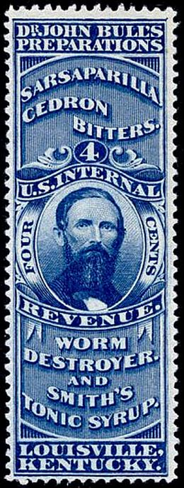 Image of Private die proprietary revenue stamp, 4c, 1866